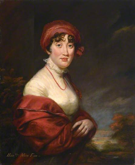 Portrait inscribed: "Honble Miss Fox; J S Northcote 1810 pinx(i)t ". This appears to be Hon. Caroline Fox (3 Nov 1767 - 12 Mar 1845), aged 43 in 1810, only daughter of Stephen Fox, 2nd Baron Holland (1745-1774) (son of Henry Fox, 1st Baron Holland (1705-1774) by his wife Lady Caroline Lennox (1723-1774)) of Holland House, Kensington, by his wife Lady Mary FitzPatrick, a daughter of John FitzPatrick, 1st Earl of Upper Ossory. Hon. Caroline Fox was a sister of Henry Vassall-Fox, 3rd Baron Holland (1773-1840) of Holland House, Kensington, and was a niece of the statesman Charles James Fox (1749-1806). Collection of Royal Albert Memorial Museum, Exeter, Devon, Accession Loan No. 274/1982. For the date of her birth as "3 Nov 1767" see: Christie, Ian, R., The Collected Works of Jeremy Bentham: Correspondence of Jeremy Bentham, Volume 3: January 1781 to October 1788, 2017 (first published 1971), p.95, footnote 8[1]. Her year of birth is confirmed as about 1767 in a contemporary letter from Jeremy Bentham to George Wilson, dated 24 Sept 1781: "Miss Fox is a little girl between 13 and 14, a sister, and the only one, of the present Lord Holland who is about 9, consequently niece to Charles Fox and to Lady Shelburne and great-niece to the Duchess of Bedford" (Christie, p.95) For the date of her death see: The Spectator, 15 March 1845, p.253, notice of deaths[2] "On the 12th (March 1845) at Little Holland House, Kensington, the Hon. Caroline Fox, niece of Charles James Fox and sister of the late Lord Holland".